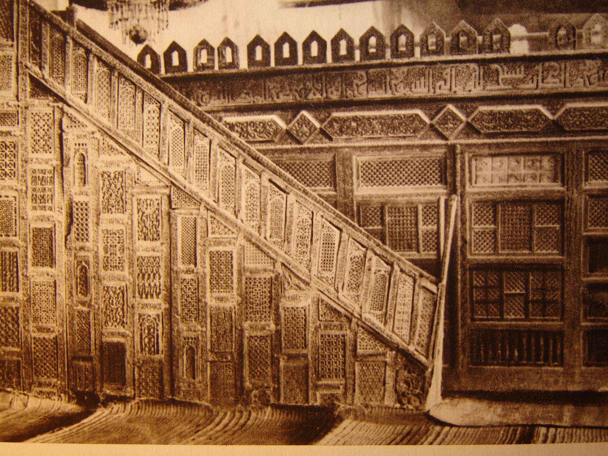 Minbar and maqsura of the Great Mosque of Kairouan. Historic postcard.